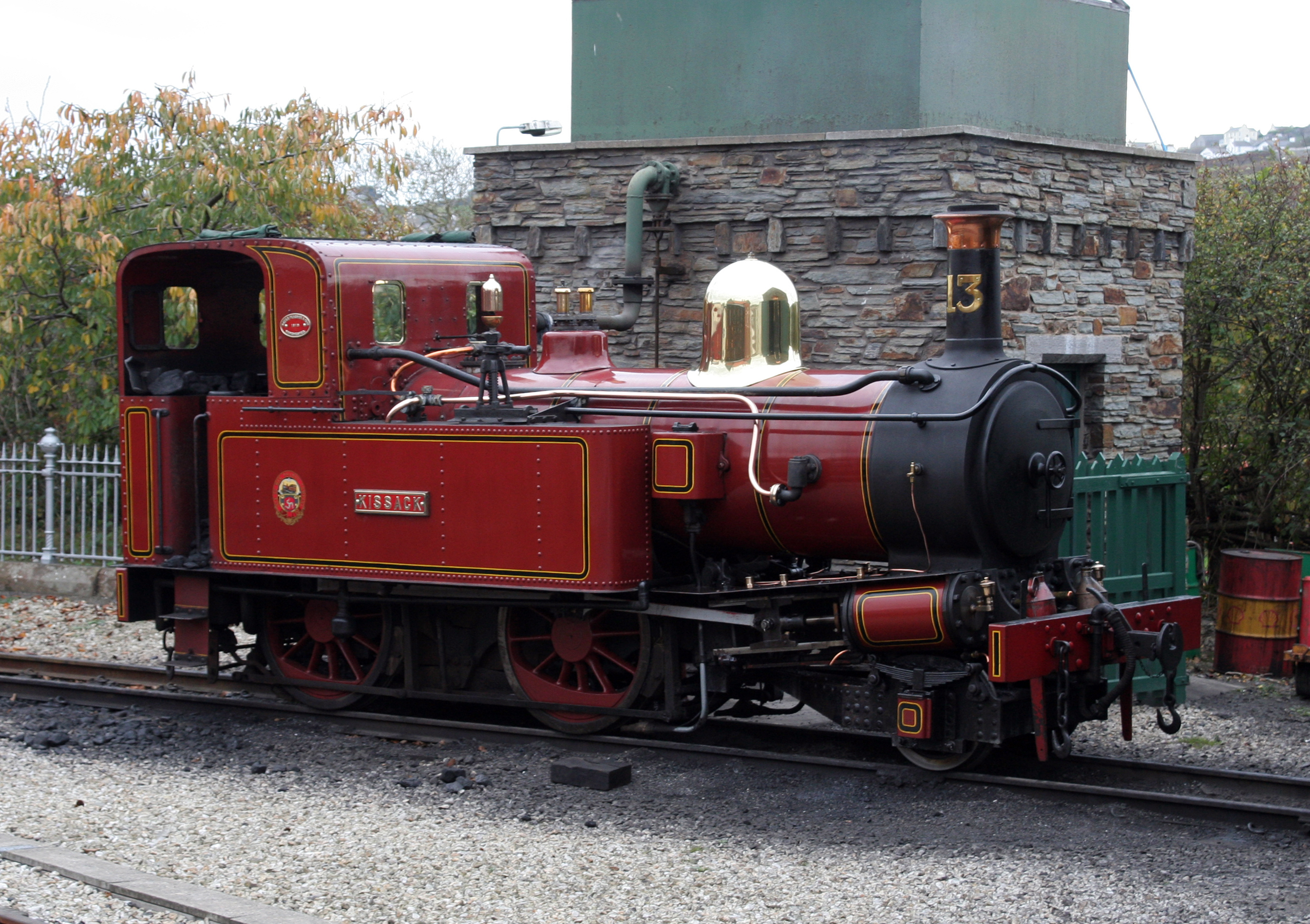 Narrow gauge 2-4-0 Tank engine at Port Erin, October 2007